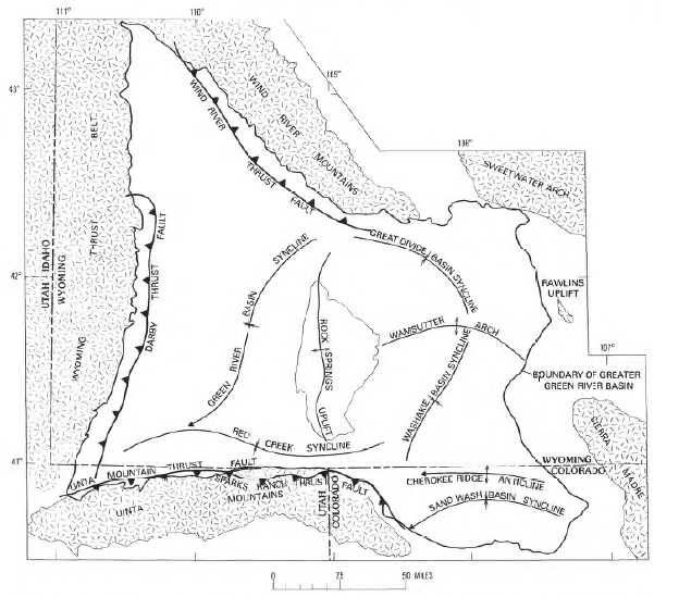 Green River Basin geologic structure map